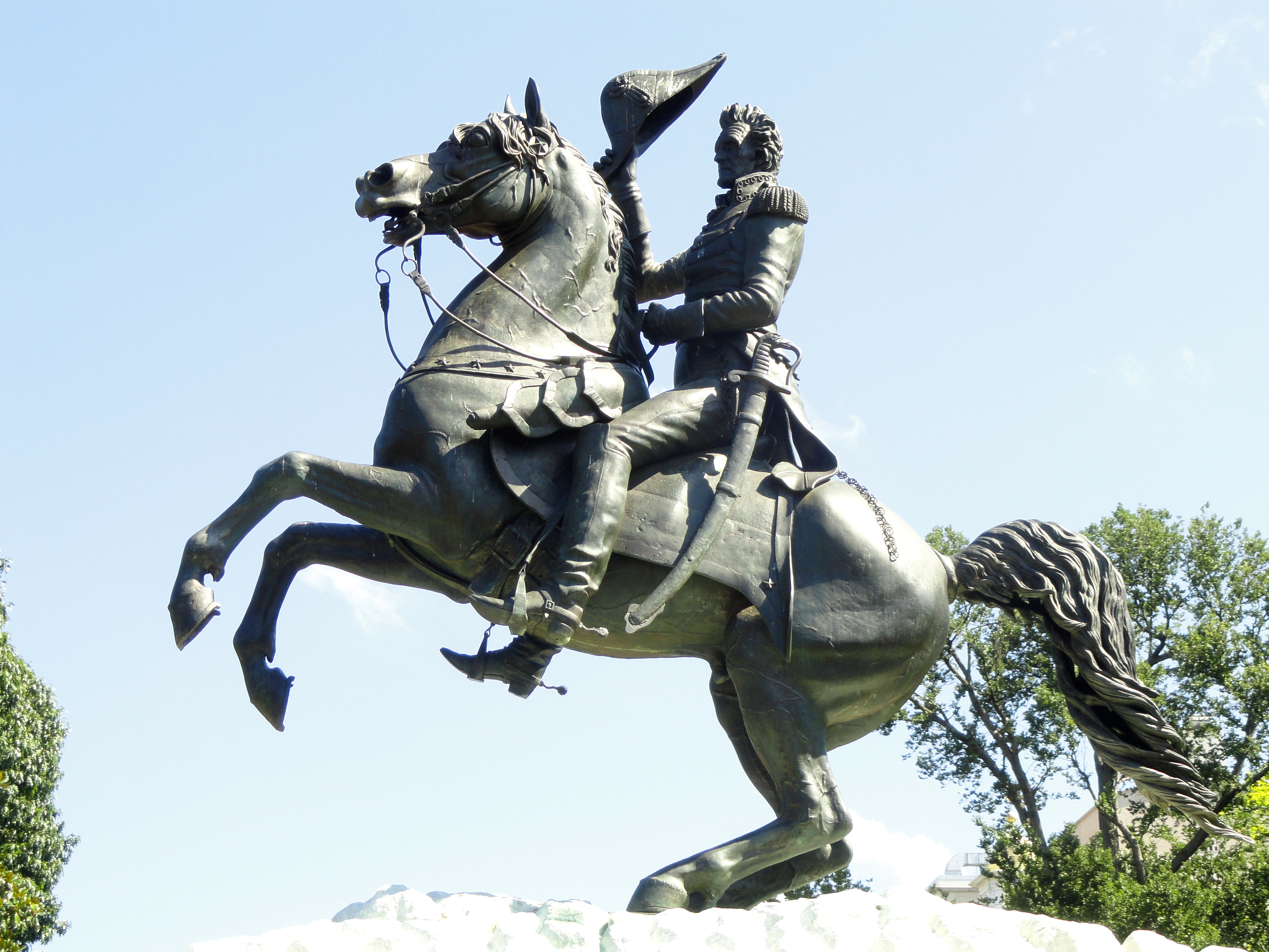 Andrew Jackson memorial, Lafayette Park, Washington, D.C., USA. Sculptor: Clark Mills (1810–1883). This artwork is now in the public domain because the artist died more than 70 years ago.